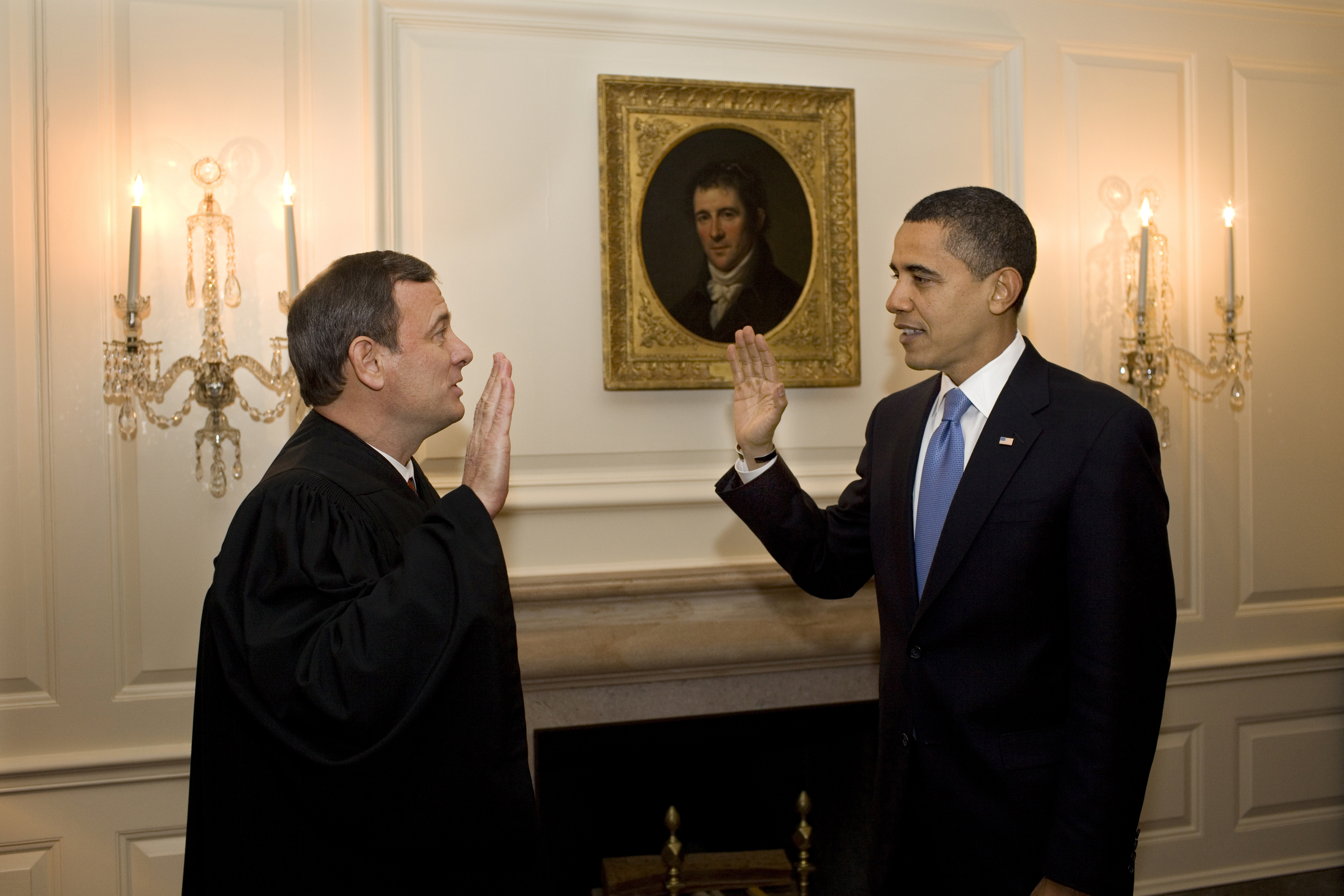 To avoid any constitutional problems, Chief Justice John G. Roberts Jr. administers the oath of office a second time with Barack Obama in the Map Room of the White House on Wednesday, January 21, 2009.